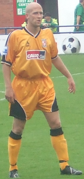 Tom Hutchinson.